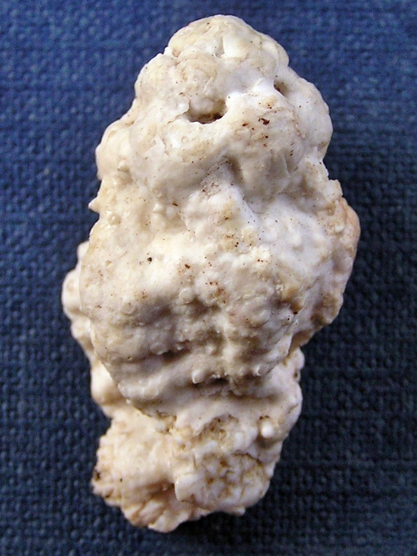 Muricodrupa jacobsoni Emerson & D'Attilio, 1981 , a murex snail from the family Muricidae; Philippines